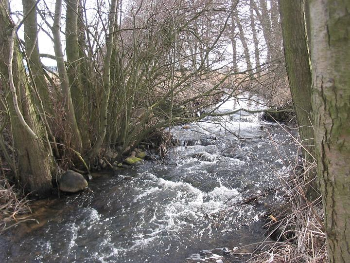 Baitzer Bach with high current in the in the grassland of „Belziger Landschaftswiesen“ („territory grassland near the town Belzig“) in Brandenburg